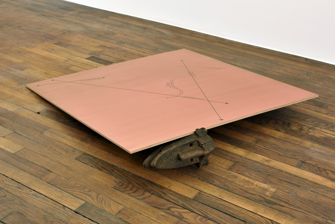 Artwork "Plateau (Antiméridien/Postméridien)" by Vittorio Santoro, 2016, Sculpture. Photo by Rebecca Fanuele